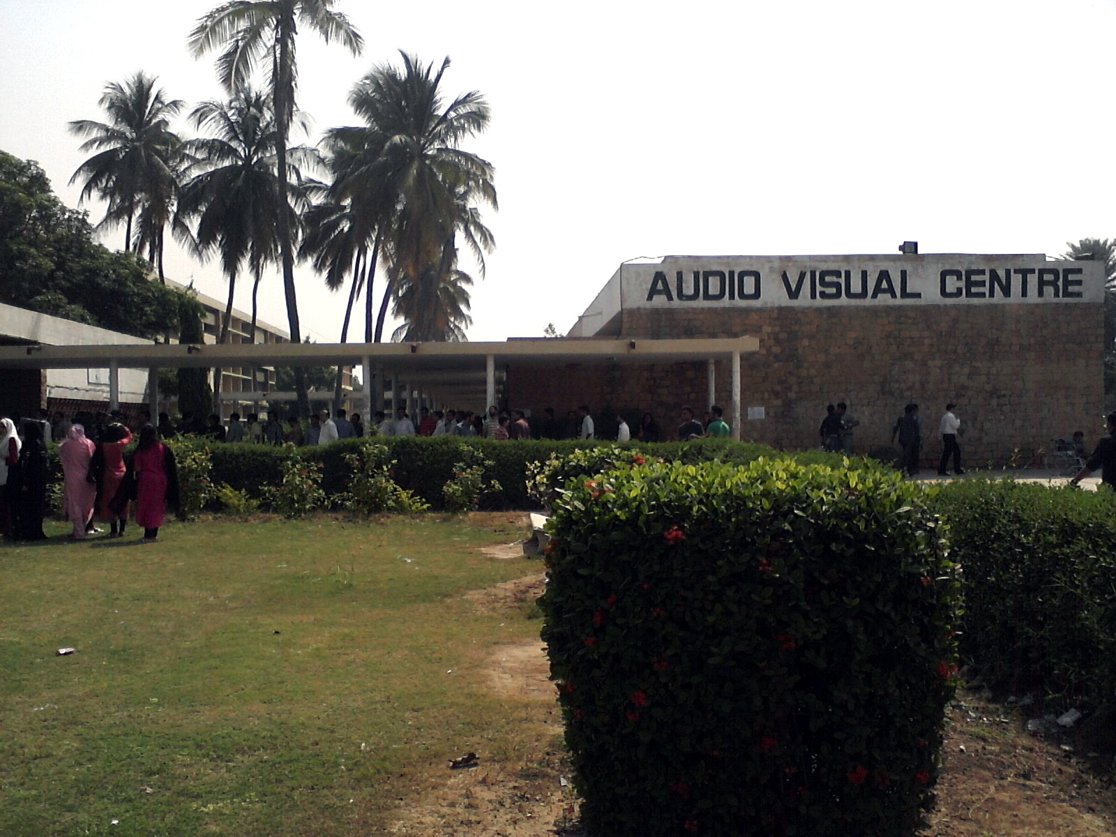 Audio Visual Centre, University of Karachi, Karachi, Pakistan.